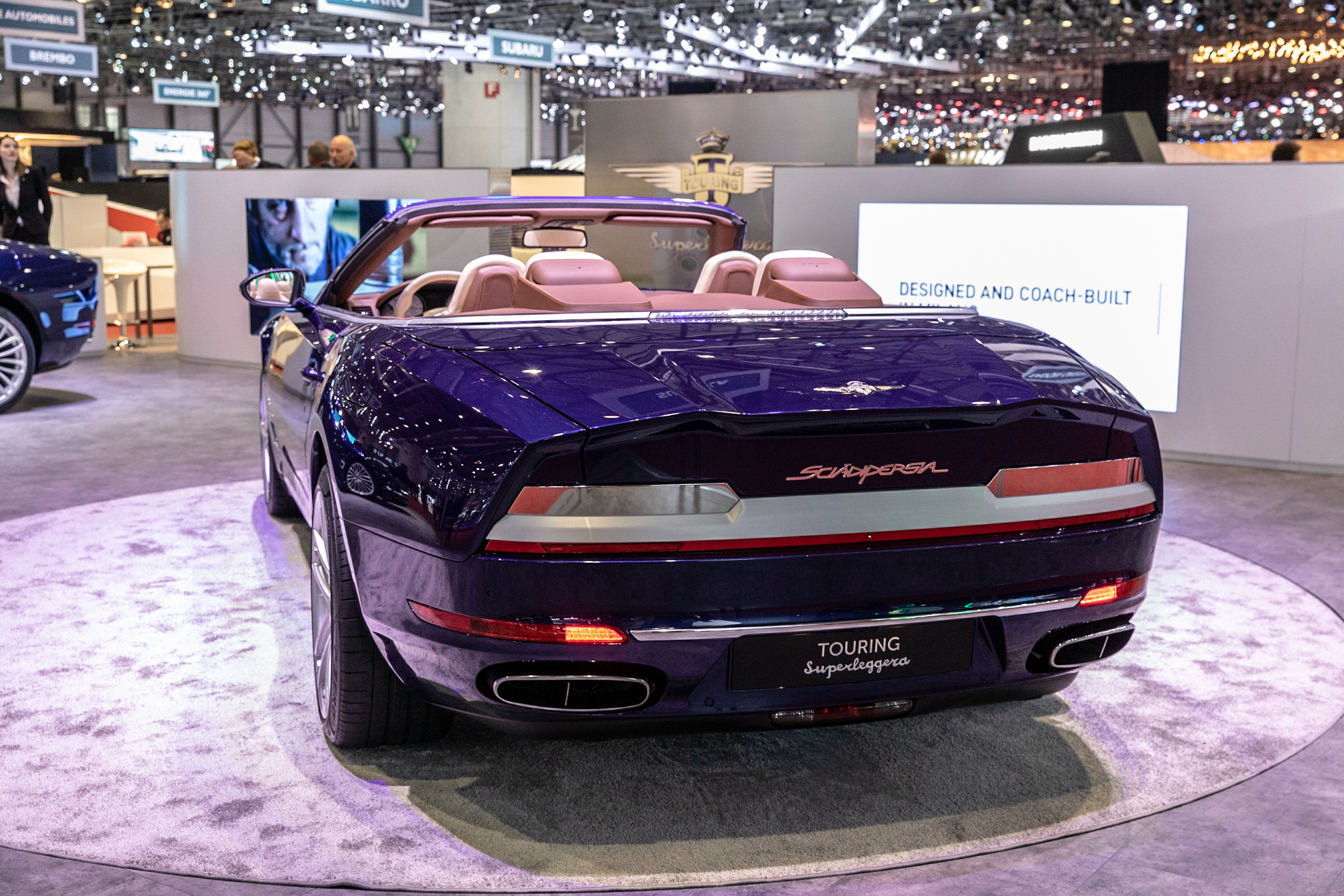 Geneva International Motor Show 2019, Le Grand-Saconnex